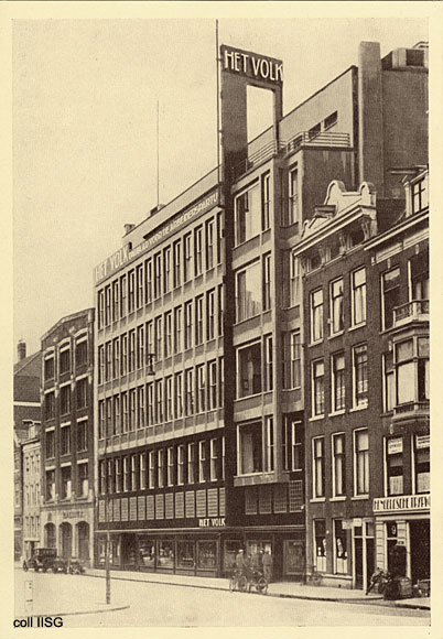 Building 'De Arbeiderspers' Amsterdam, The Netherlands. Build in 1929. Architect: Jan Buijs